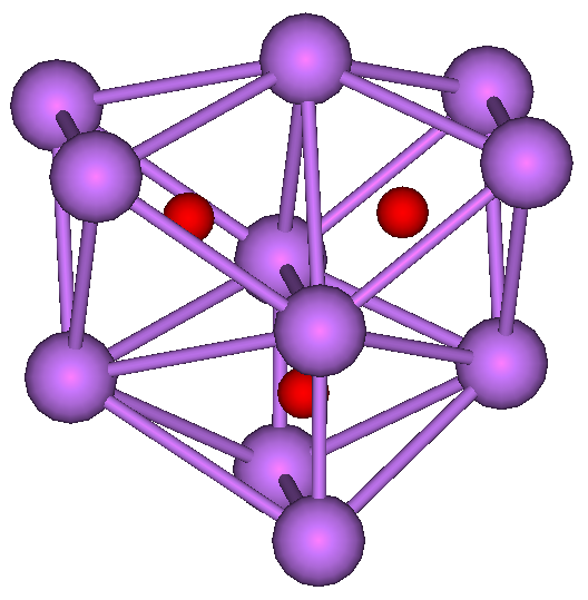 Cs11O3 clusetr in Cesium suboxides